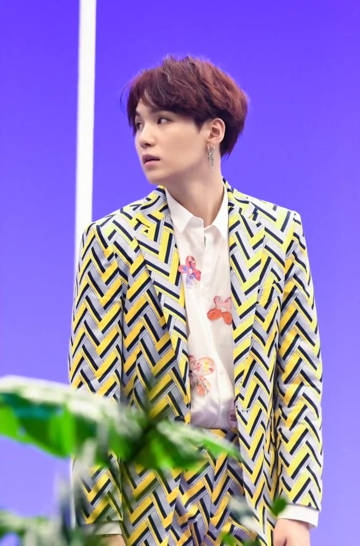 Suga for Dispatch photoshoot on "Idol" music video set, 19 July 2018